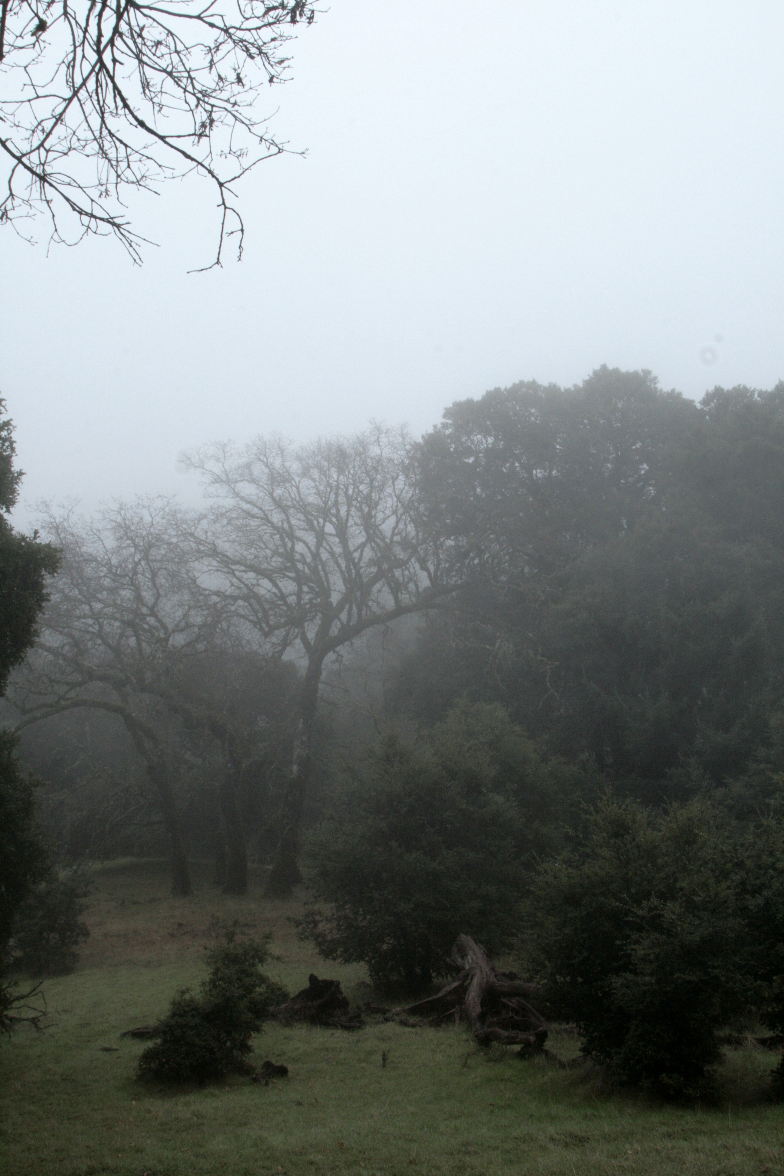 Landscape in Saratoga Gap Open Space Preserve, northern California. Part of the Midpeninsula Regional Open Space District system.